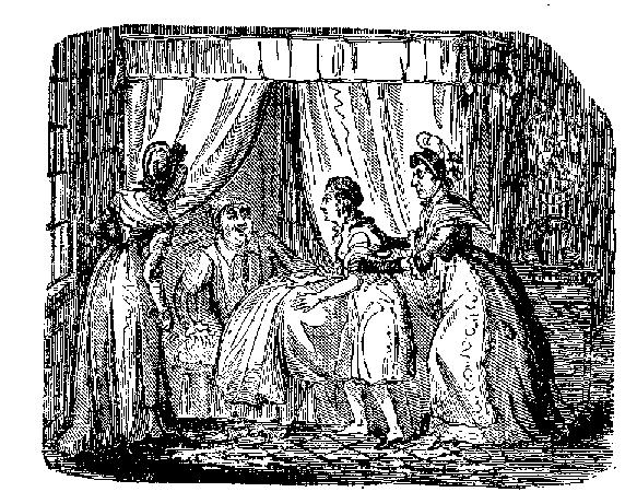 18th century illustration of the scene of supposed rape of Sarah Woodcock by Frederick Calvert, 6th Baron Baltimore. A court later found that she did not "adequately resist", and Baltimore was acquitted.